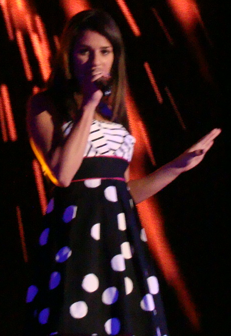 Lea Michele as Rachel Berry, performing "Firework" on the Glee Live! In Concert! tour.